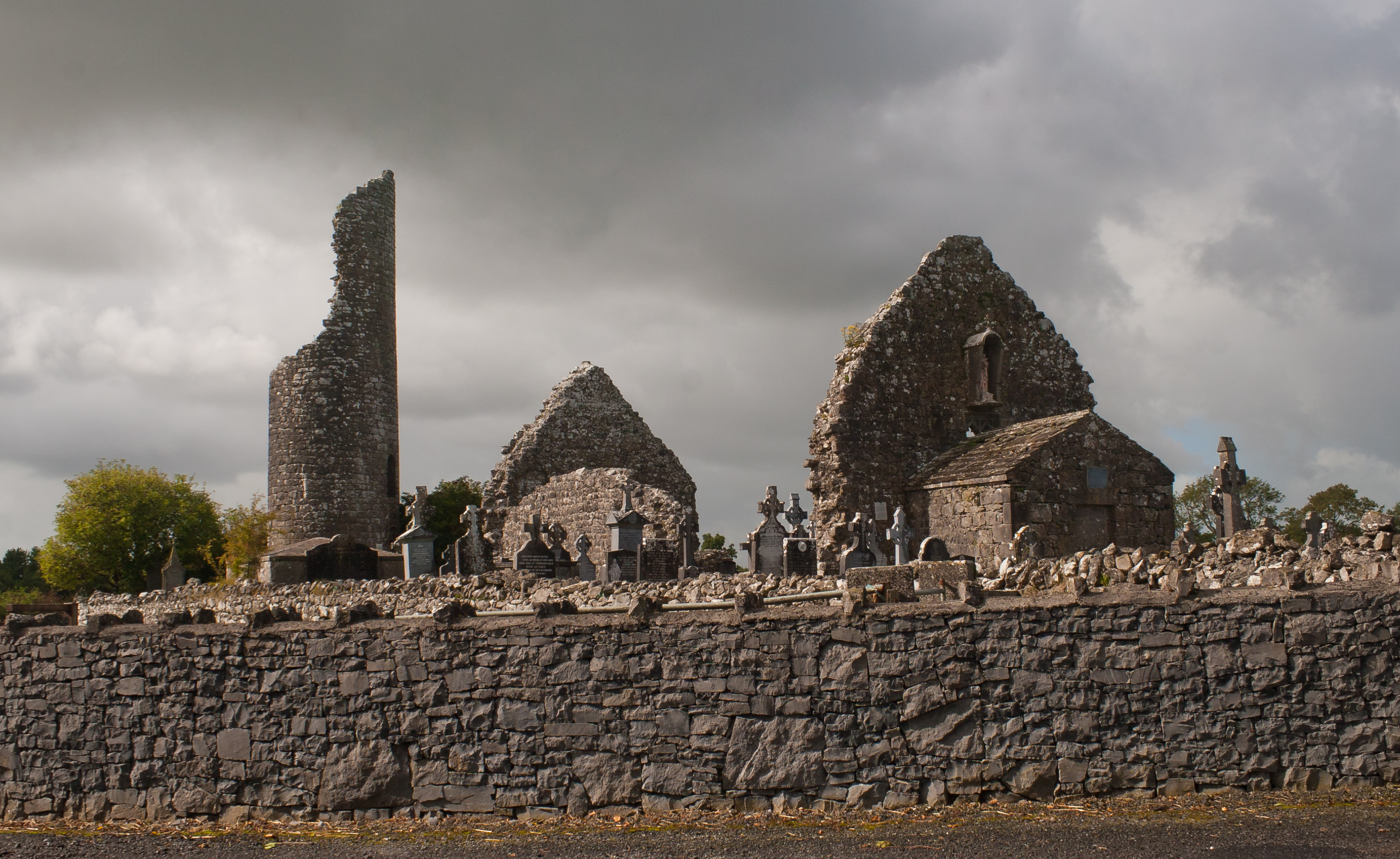 Kilbennan Round tower and church as seen from the road, looking north-west.